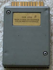 Commodore C64 IEEE488 color printer interface module